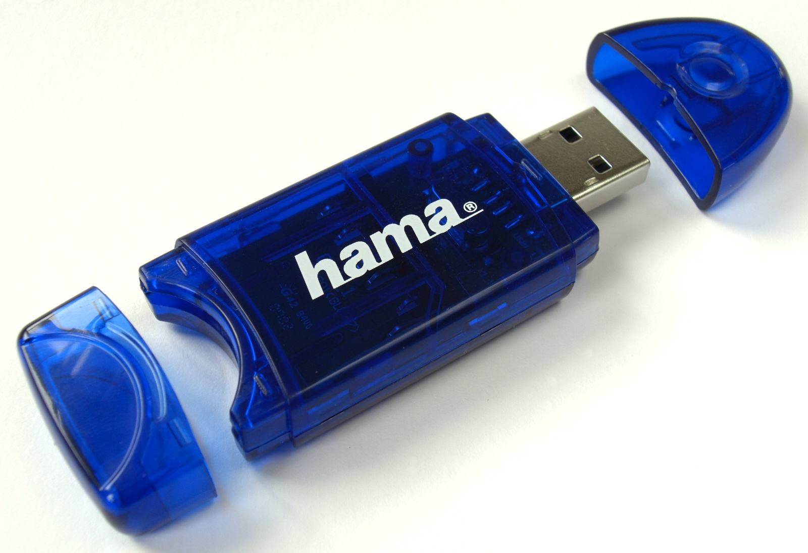 USB Flash Drive and Card Reader